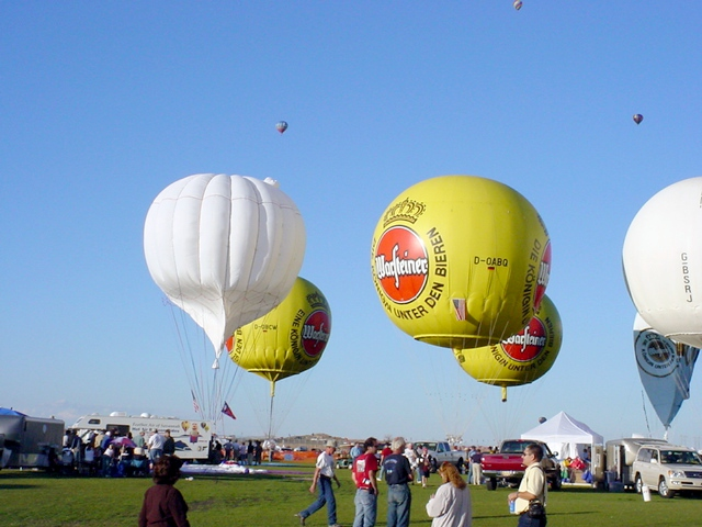 Gas balloons inflating at the Balloon Fiesta Park during the Albuquerque International Balloon Fiesta in Albuquerque. Photographed by Martinman11 in October 2004 in Albuquerque.